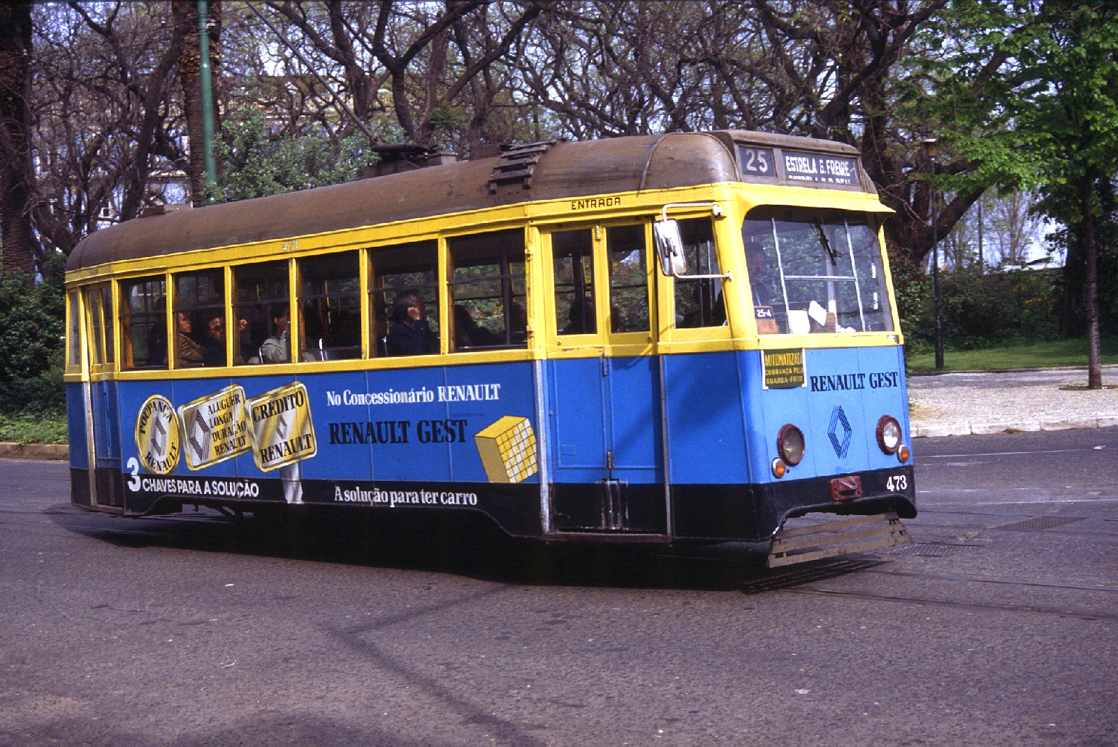 Lisbon single-ended tramcar 473, one of 35 cars of its type, built by Carris between 1952 and 1963 using the trucks and electrical equipment of withdrawn trams. It was operating on line 25 when photographed.